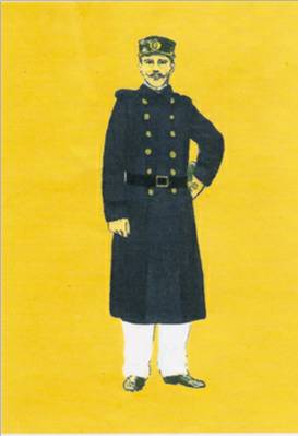 Police officer of Rio de Janeiro - 1866 - Brazil